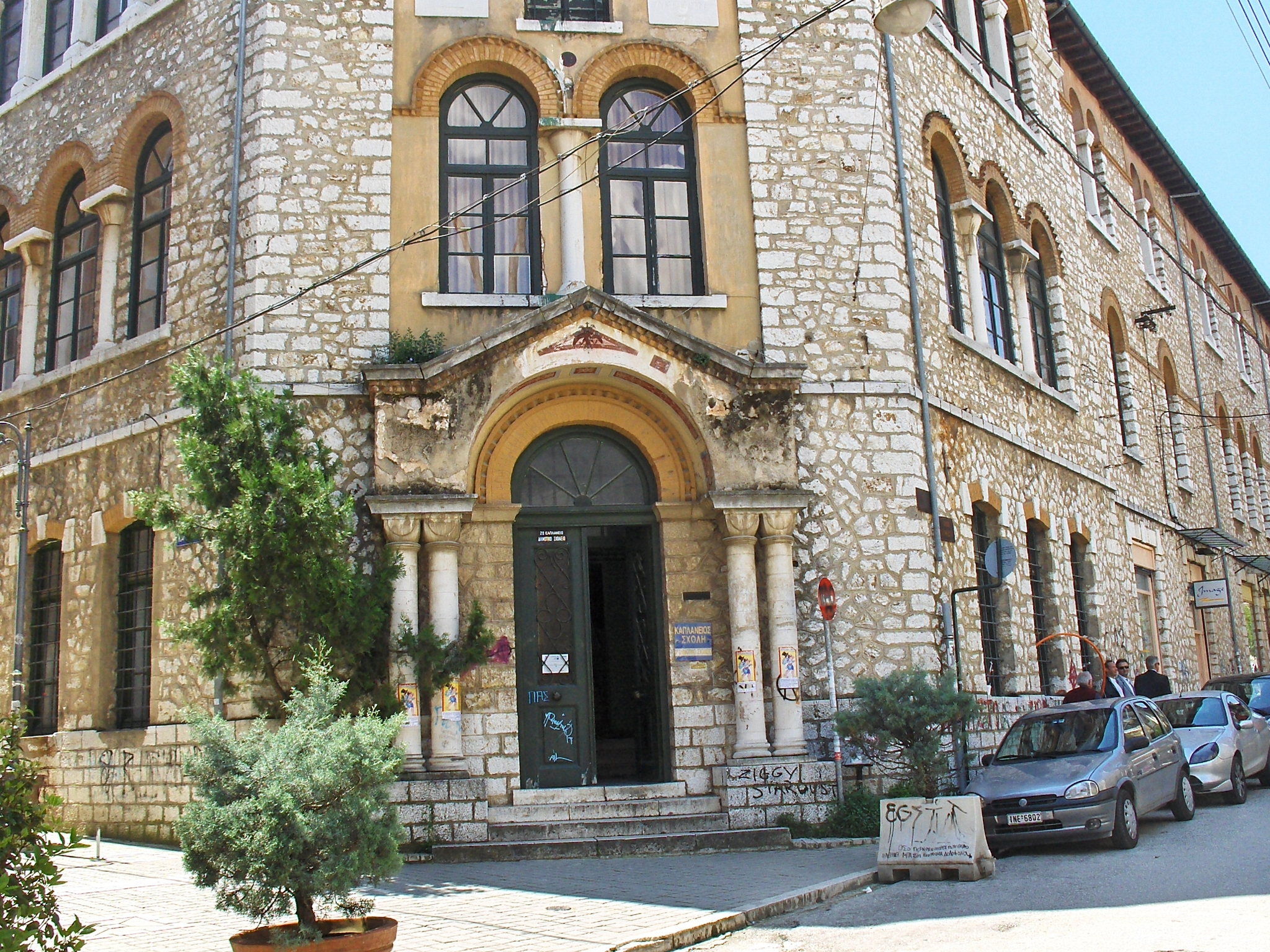 Kaplaneios, previously Maroutseios. It was one of the main schools in Ioannina. It was refounded by Athanasios Psalidas as Kaplaneios in 1805, following a donation by Zois Kaplanis, a wealthy Greek merchant from Russia. Η Καπλάνειος Σχολή, πρώην Μαρούτσειος. Επανιδρύθη από τον Αθανάσιο Ψαλίδα το 1805 ως Καπλάνειος μετά από δωρεά του πλούσιου εμπόρου Ζώη Καπλάνη από την Ρωσία.